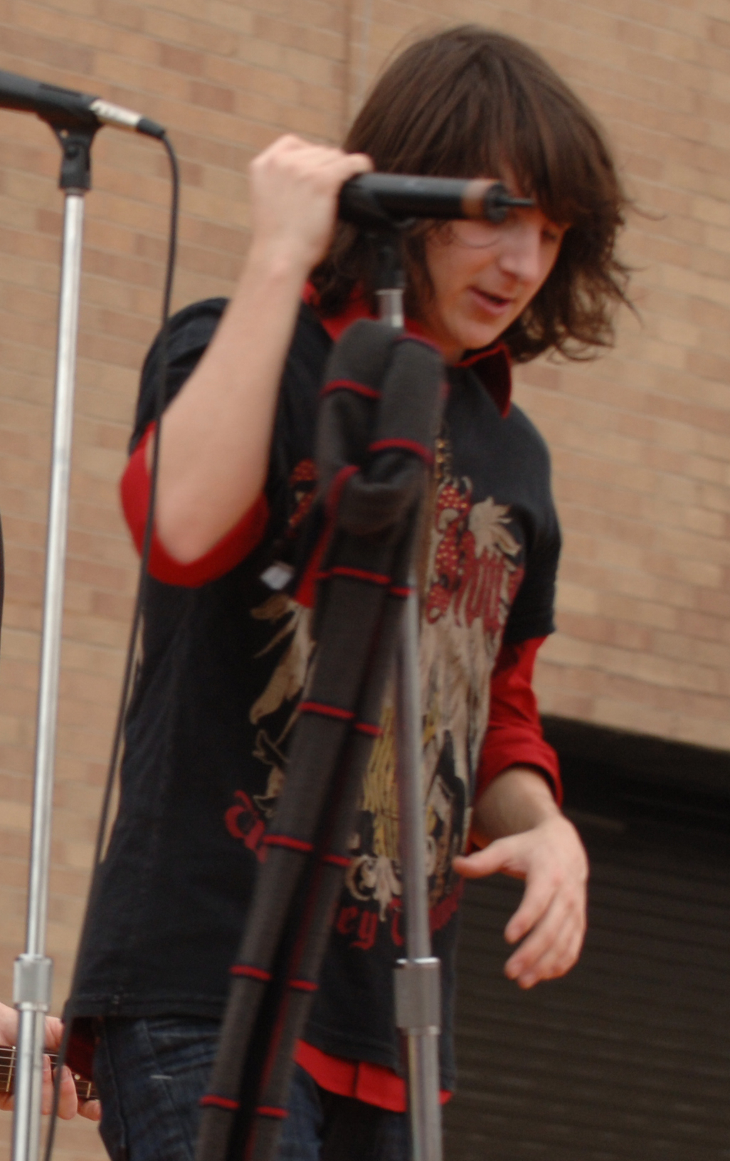 Mitchel Musso in the H-E-B Holiday Parade 2008, Houston.